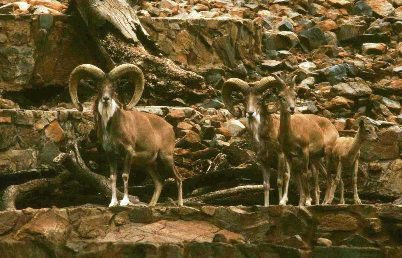 Urials (Ovis vignei arkal) at Pretoria Zoo. Modification of brightness by Christophe cagé 08:04, 1 June 2008 (UTC) .